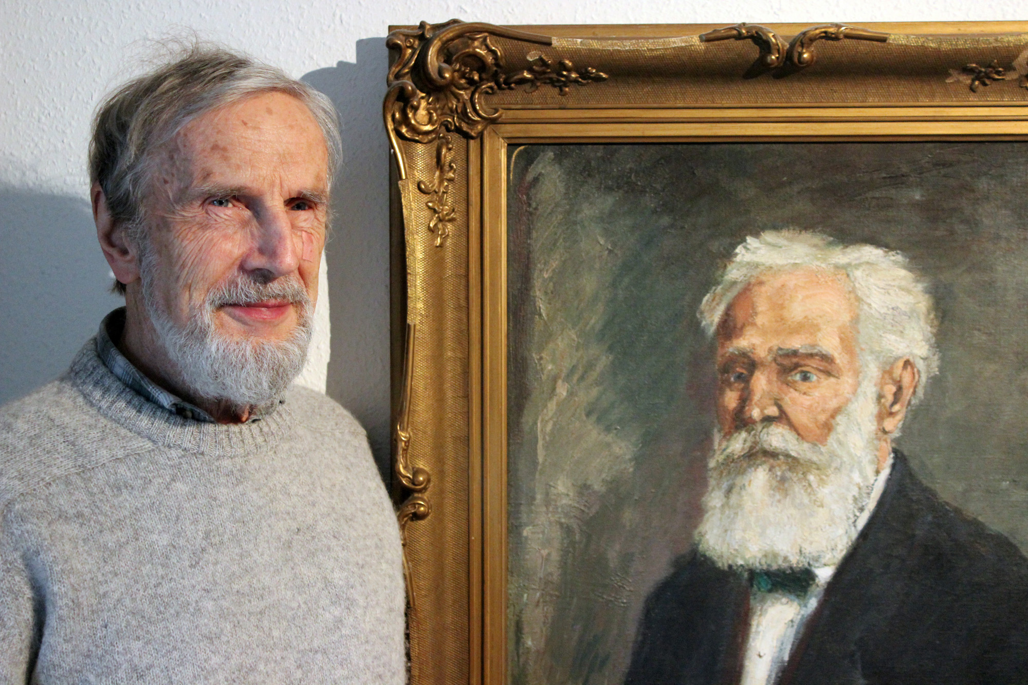 Wilfried Körtzinger in front of a portrait of his grandfather Hugo Anton Körtzinger (painting by Hugo Körtzinger)